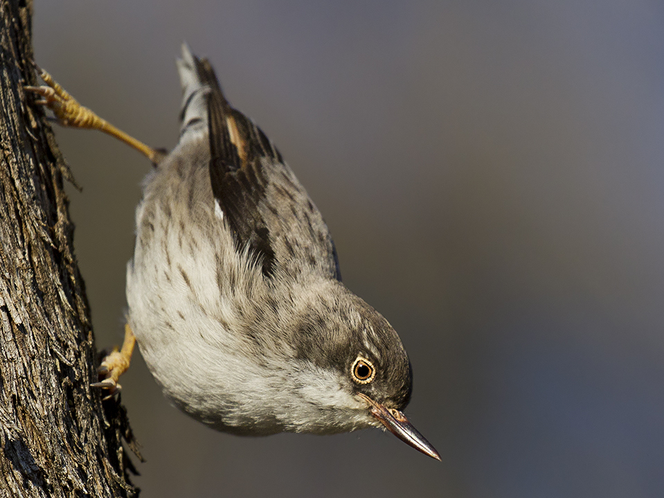 Strangways Vic.